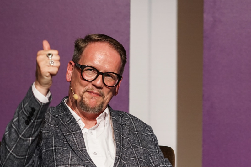 Sjón (Sigurjón Birgir Sigurðsson) at LitteratureXchange Festival in Aarhus (Denmark 2019)